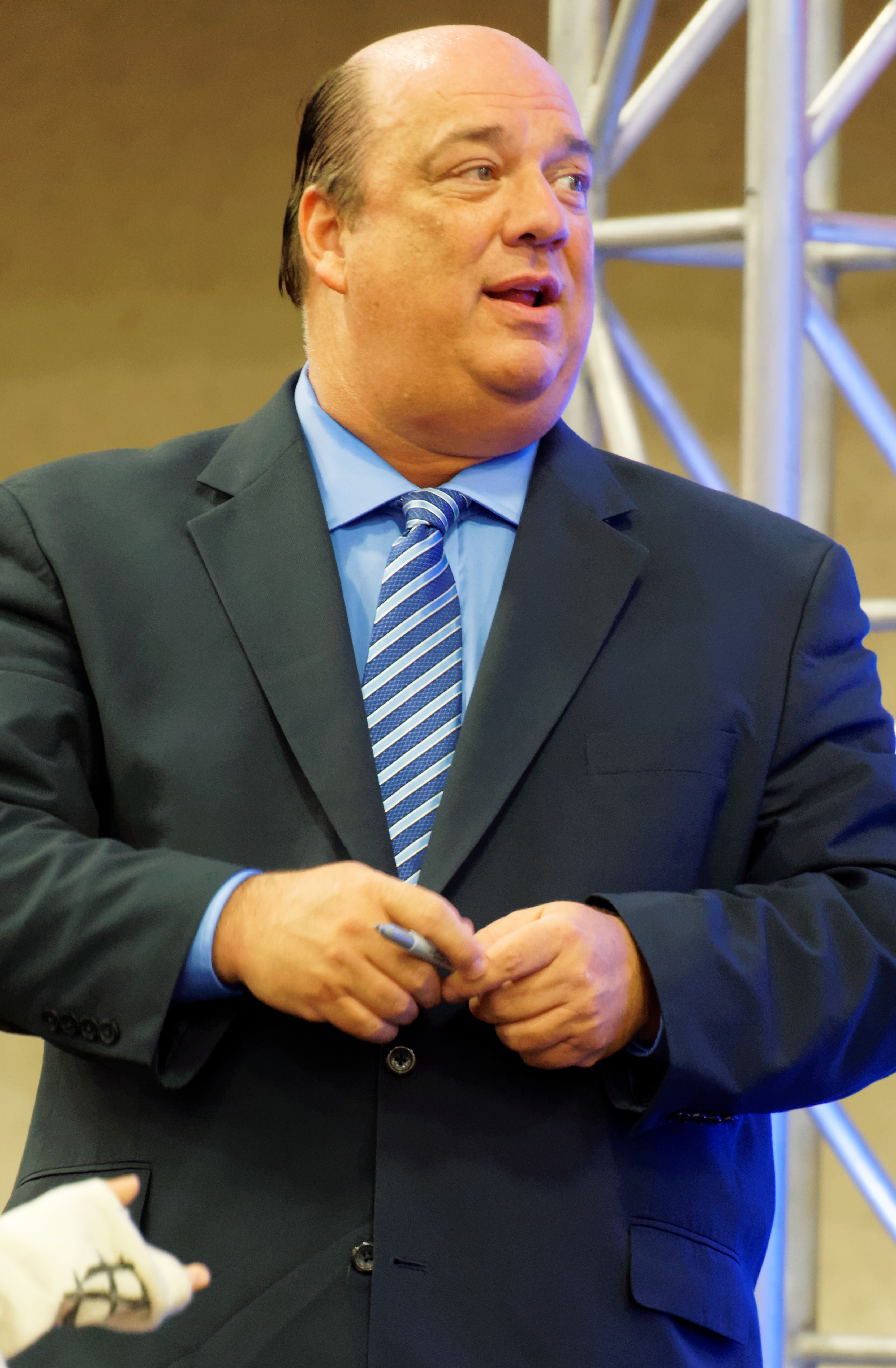 Paul Heyman at WrestleMania 32 Axxess in April 2016.